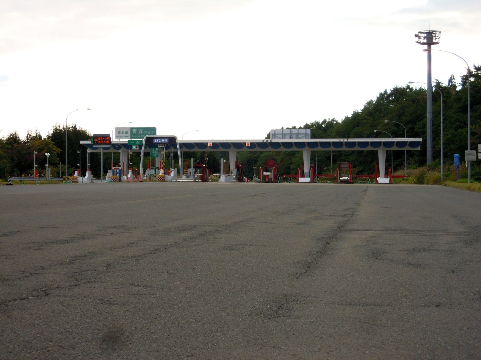 This Interchange, Aomori Interchange, is on Tohoku Expressway, in Aomori City, Aomori Prefecture, Japan.